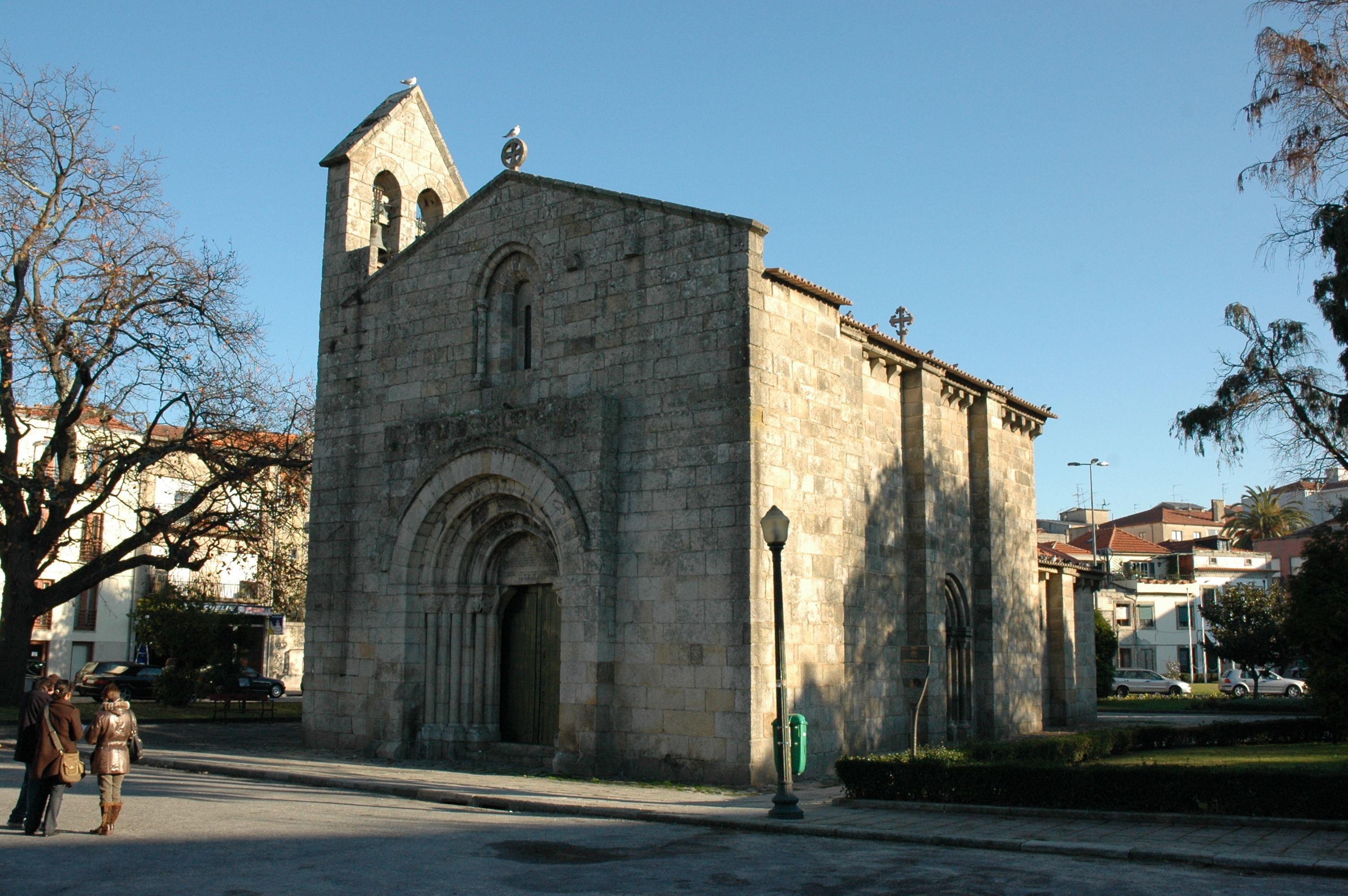 São Martinho de Cedofeita church. Located at freguesia of Cedofeita, Porto, Portugal.